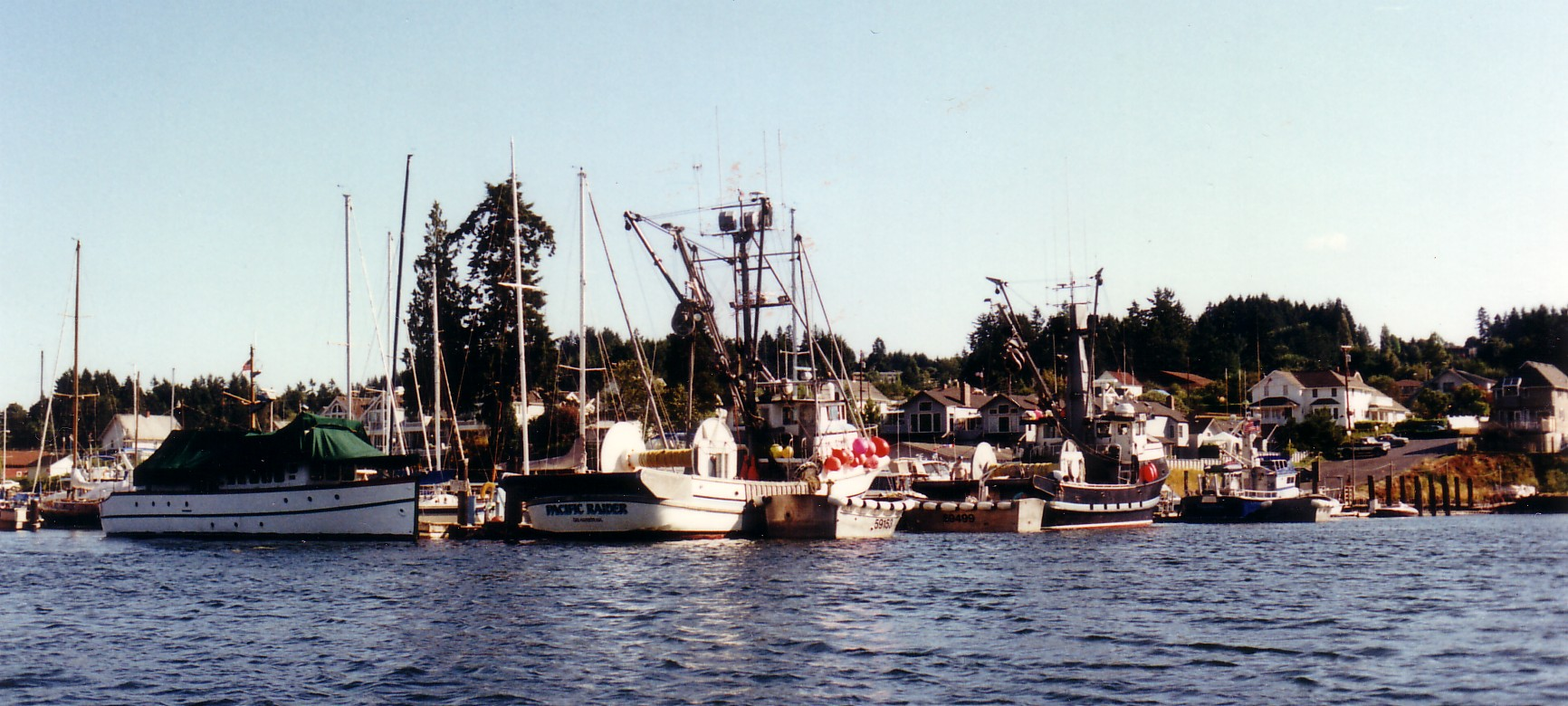 Private boats in Gig Harbor, Washington, USA